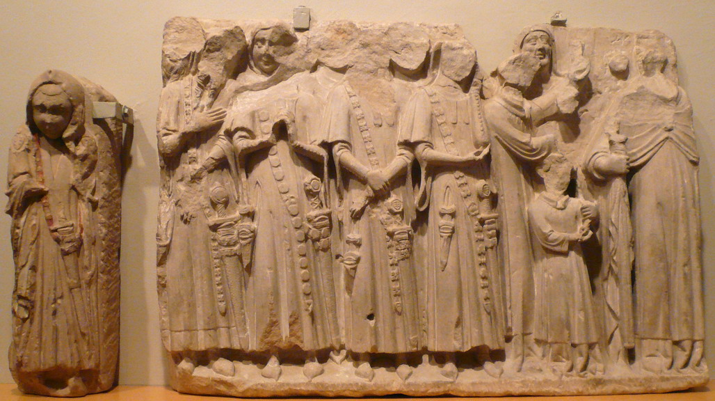 Reliefs by Pere Sagués, Seu Vella, Lleida, Catalonia. Now in Museu Fredric Marès, Barcelona.